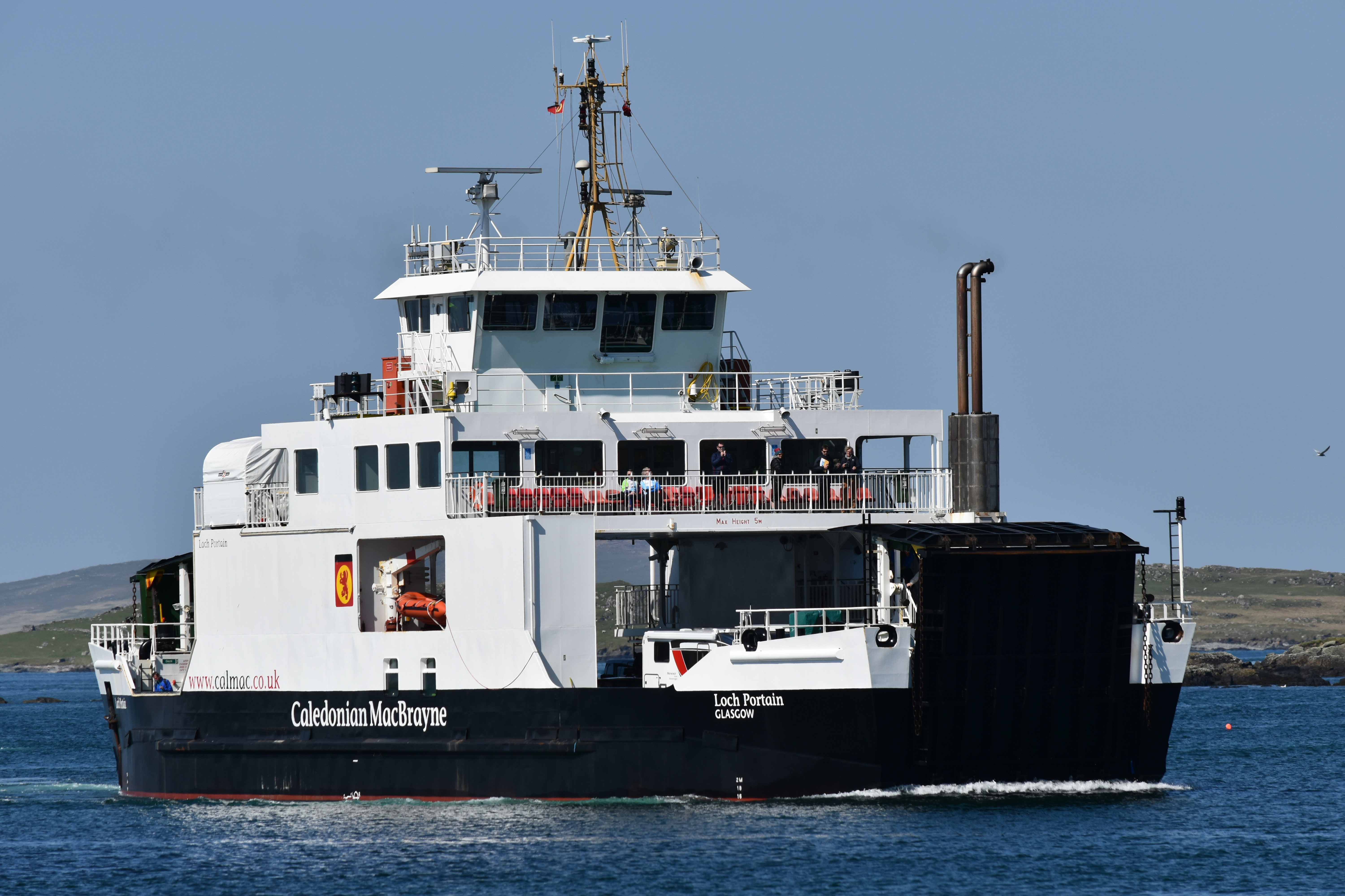 Caledonian MacBrayne ferry, Loch Portain arriving at Leverburgh at 11.25am on 9 May 2016. The vessel operates the Sound of Harris crossing between Berneray and Leverburgh.